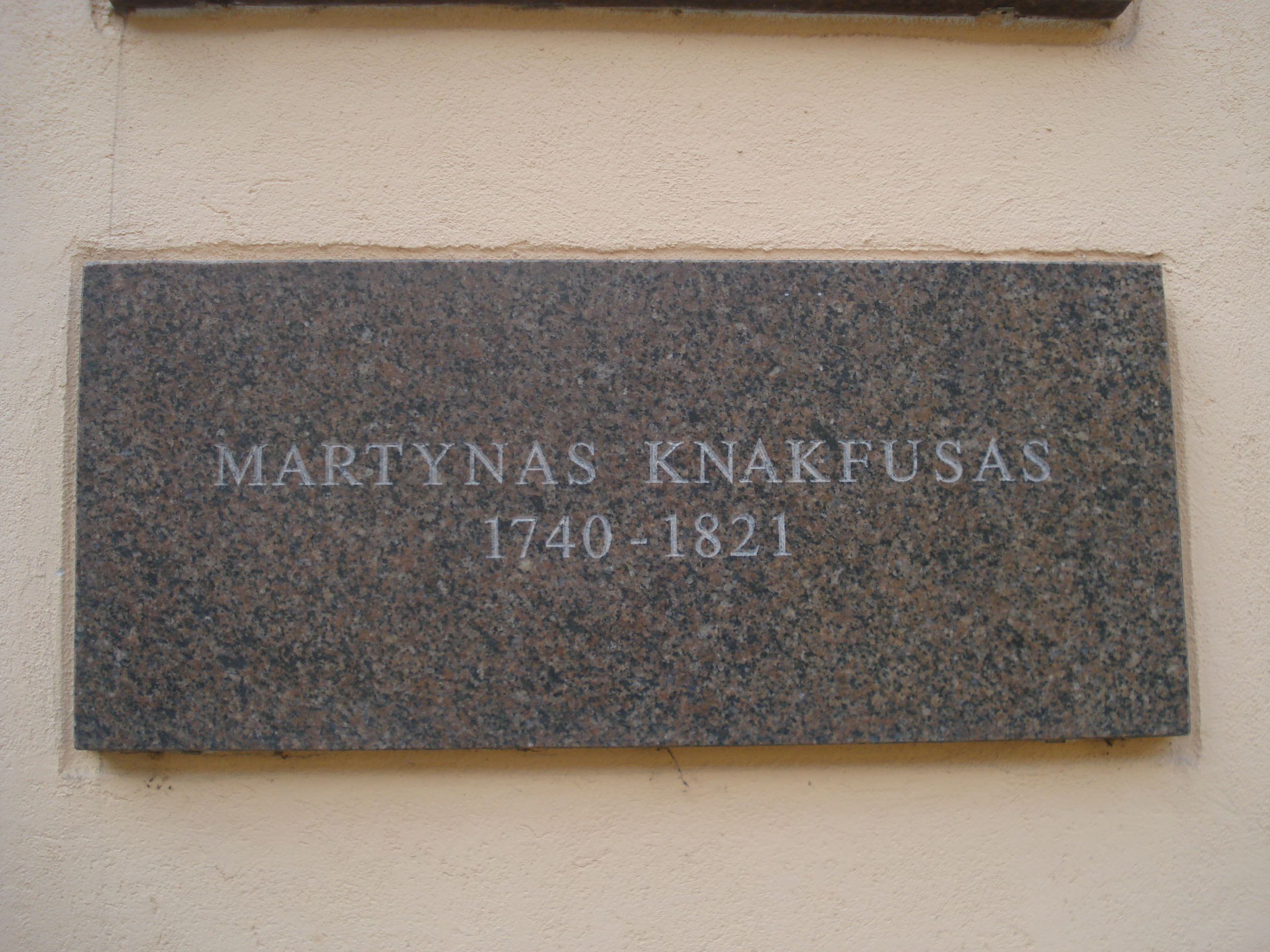 Tablet in memory of Lithuanian architect Marcin Knackfus (circa 1740 — circa 1821) in the courtyard of the Vilnius Academy of Arts